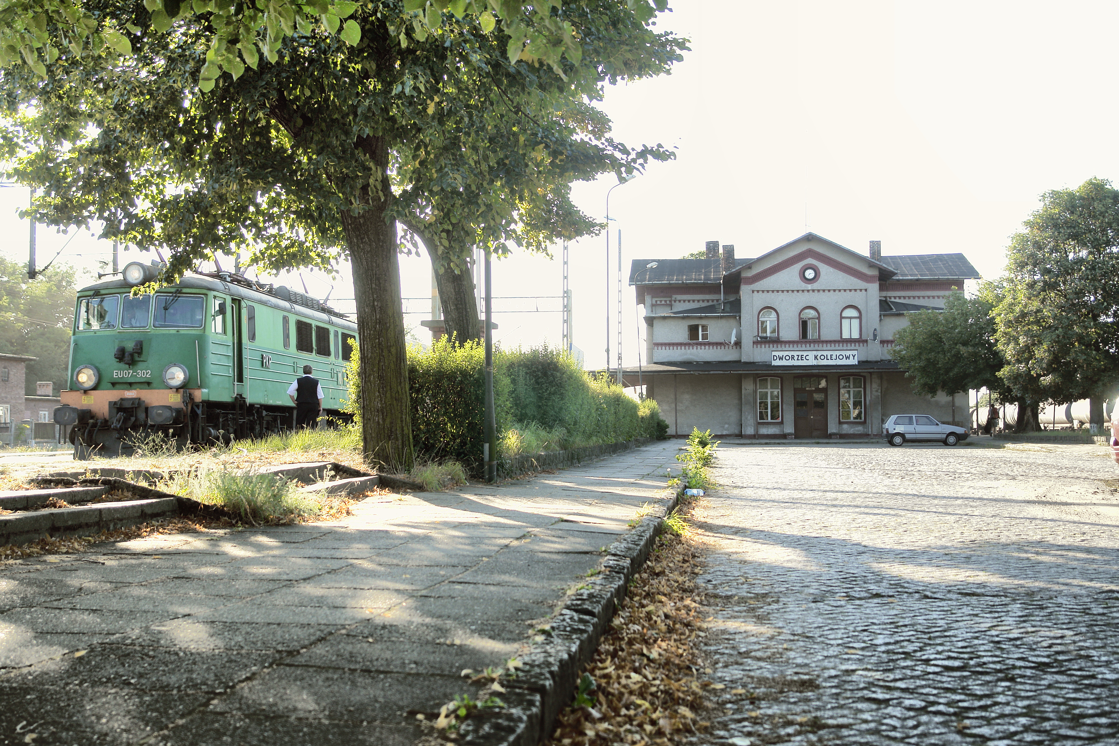 Train station in Czerwieńsk near Zielona Góra, Poland